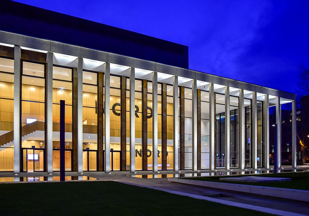 Das neue RheinMain CongressCenter in Wiesbaden. ©2018 Volker Watschounek / Wiesbaden lebt!